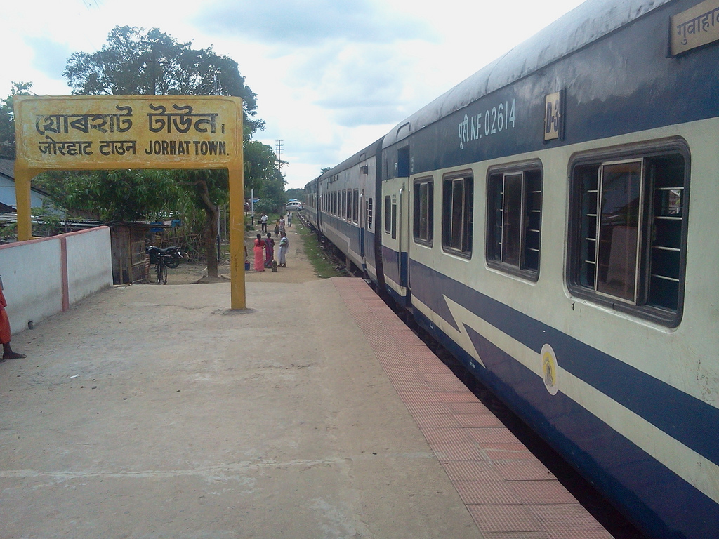 Final destination: Guwahati JORHAT TOWN Guwahati Jan Shatabdi Express at Jorhat Town train station.